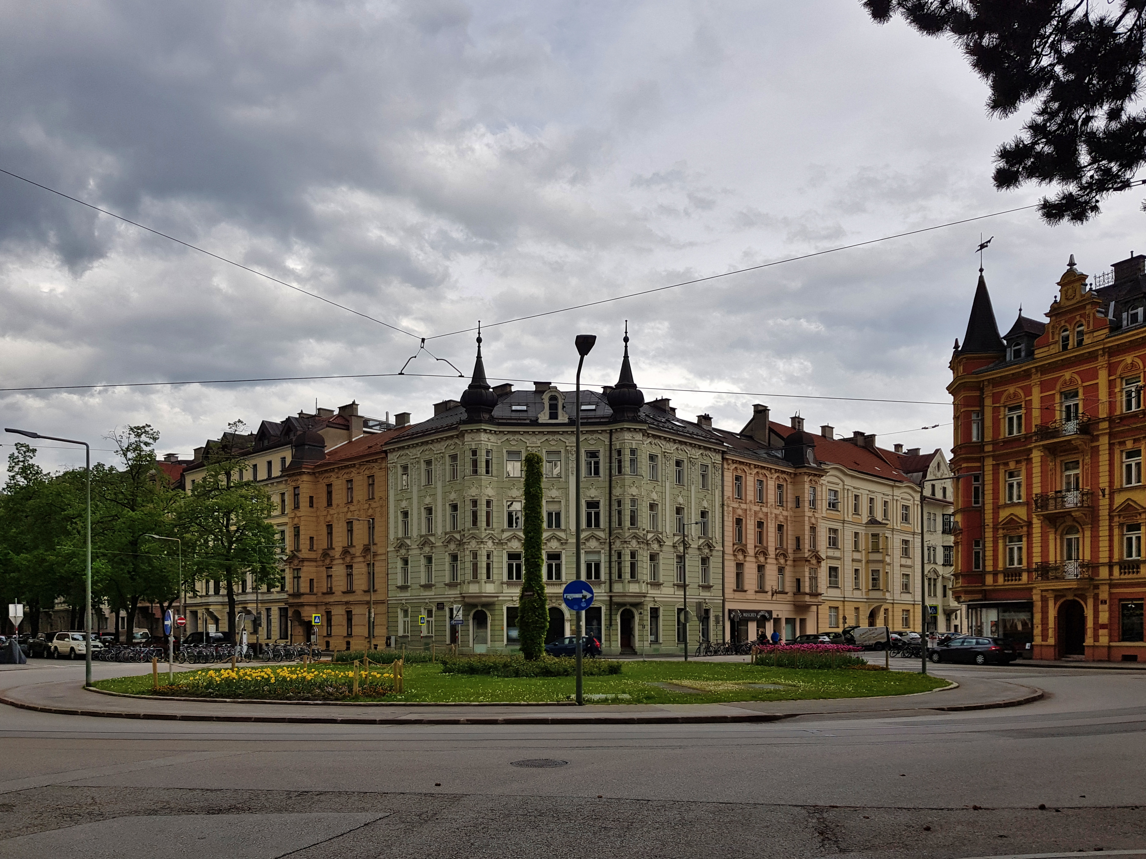 Claudiaplatz